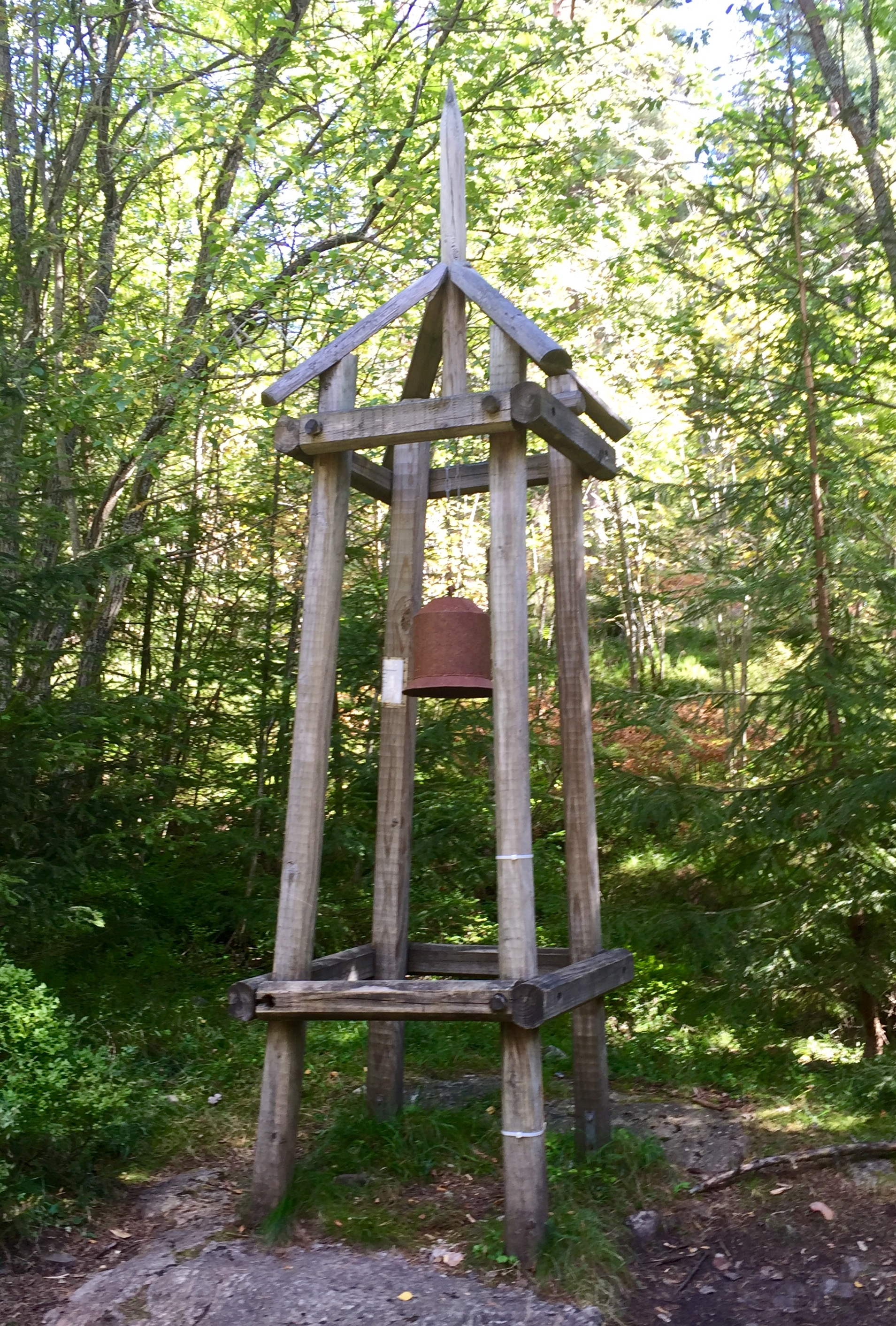 A bell placed in Gjelleråsen at the ancient trackway